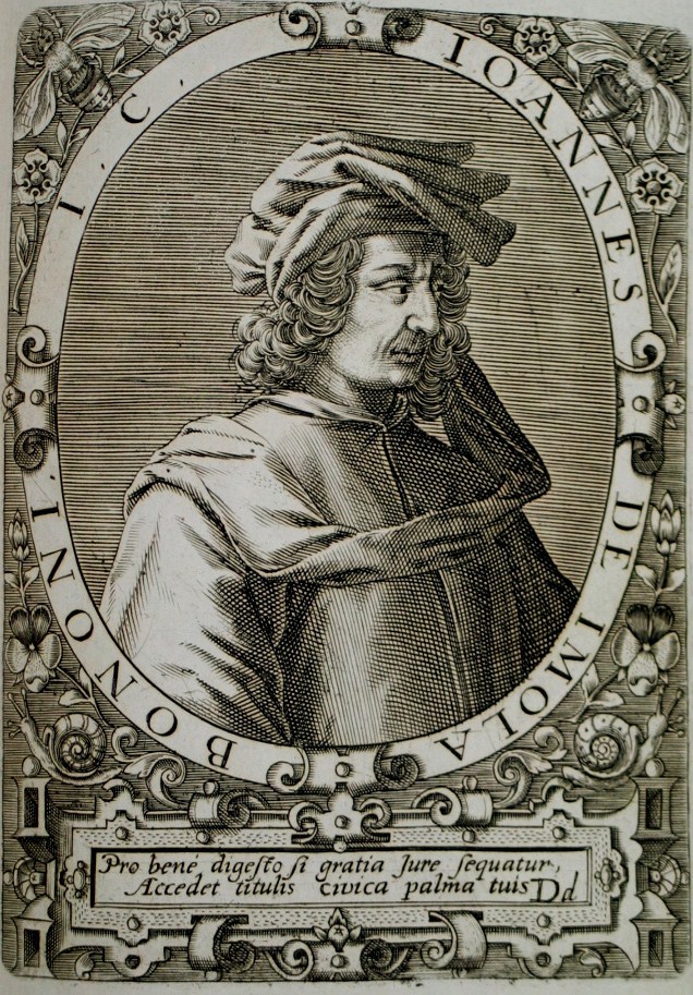 Portrait of Johannes de Imola from Bibliotheca chalcographica 1652-1669 [1], a collection of earlier engravings.